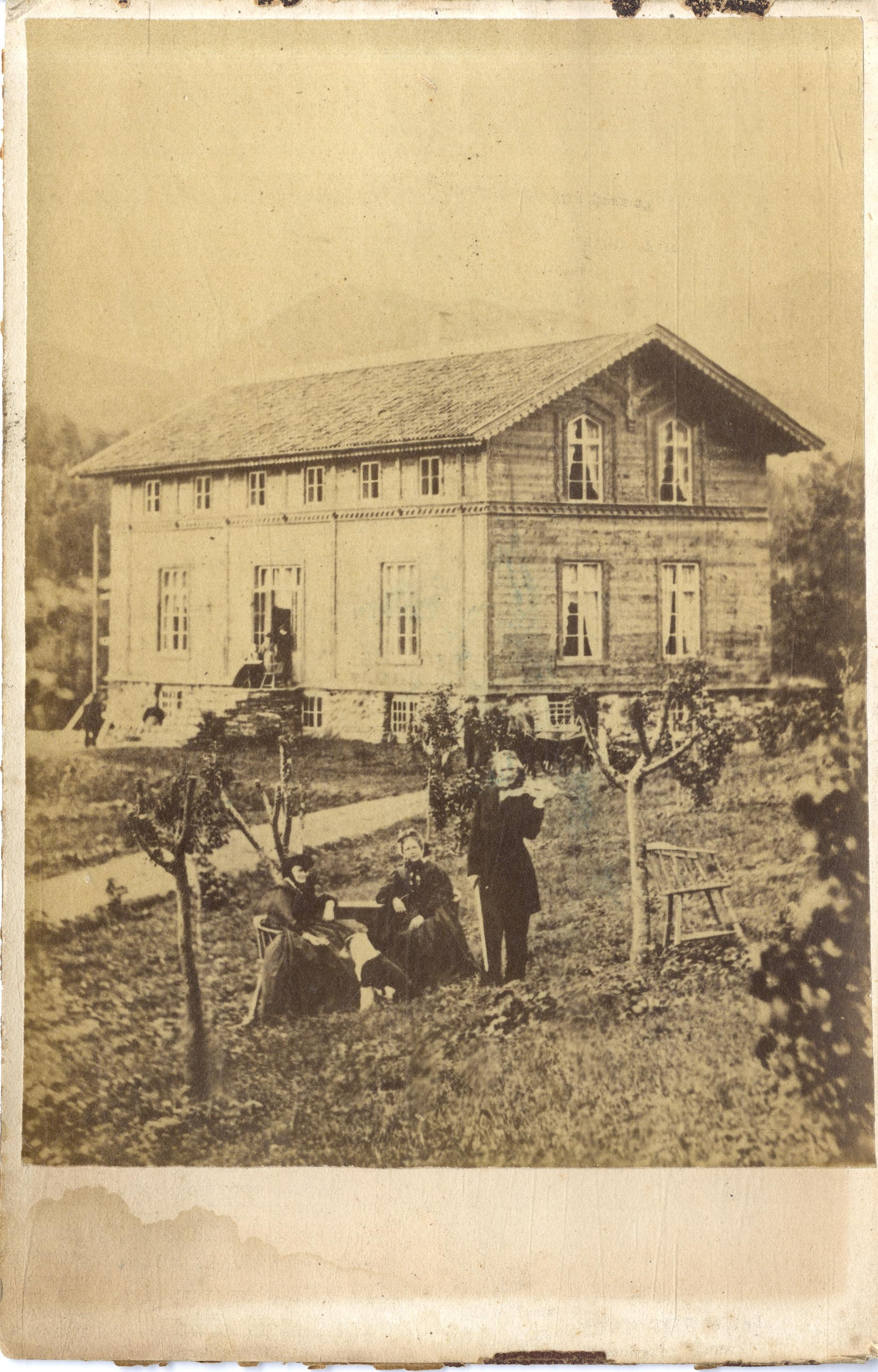 Artist: Mette Geelmuyden Date/place: 1866, Valestrand/Norway Subject: Stine Stub, Cathinka Hagemann and Ole Bull outside Valestrand Medium: photographic positive Notes: none Persistent URL: Original belongs to Knut Hendriksen's private collection at Valestrand - scan by [#// Statsarkivet in Bergen]